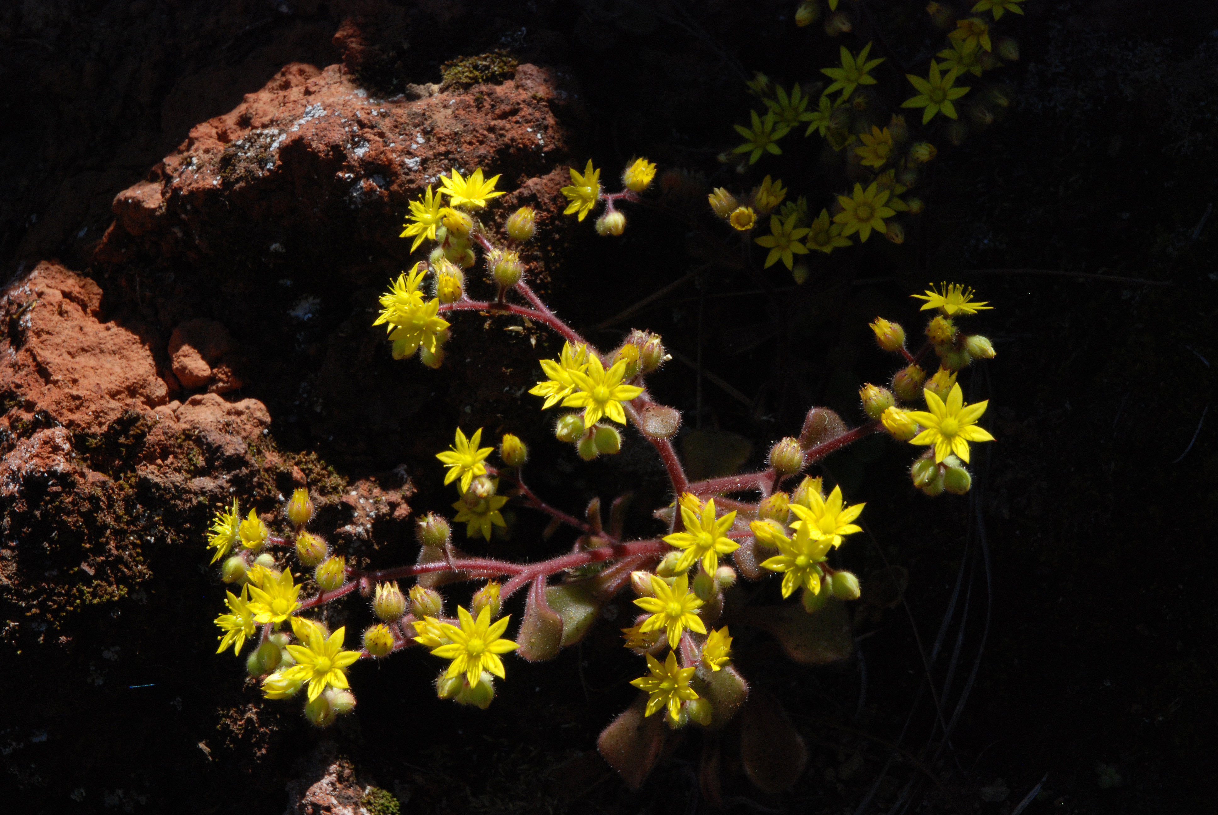 Aichryson laxum, Picos del Risco de las Cuevas (El Rodeo), La Palma, Spain